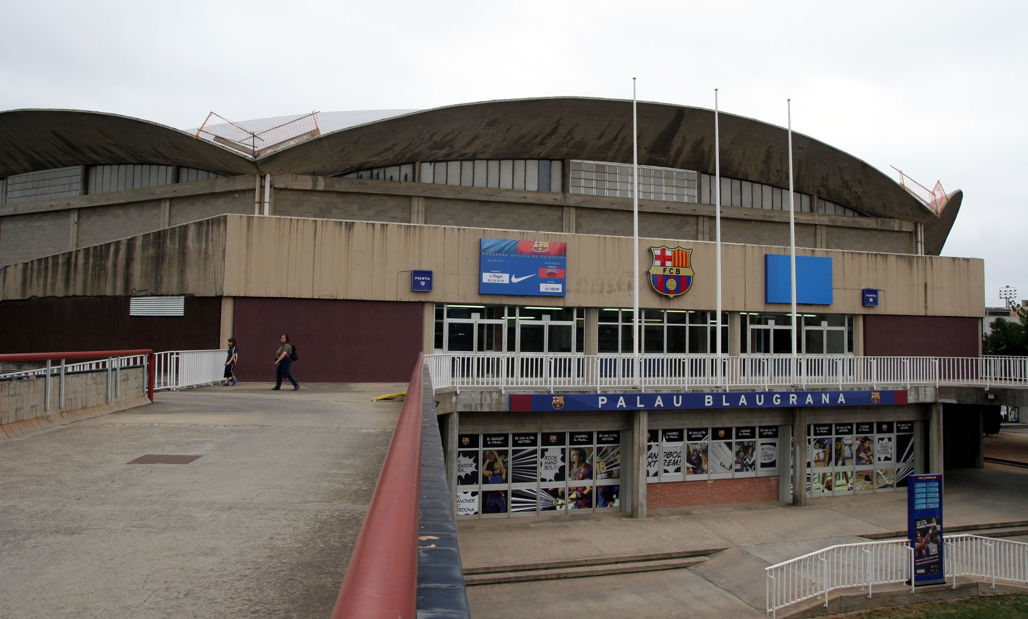 The sports arena Palau Blaugrana from FC Barcelona on October 12th, 2008 in Barcelona prior the Champions League game FC Barcelona Borges - H.C. Metalurg Skopje